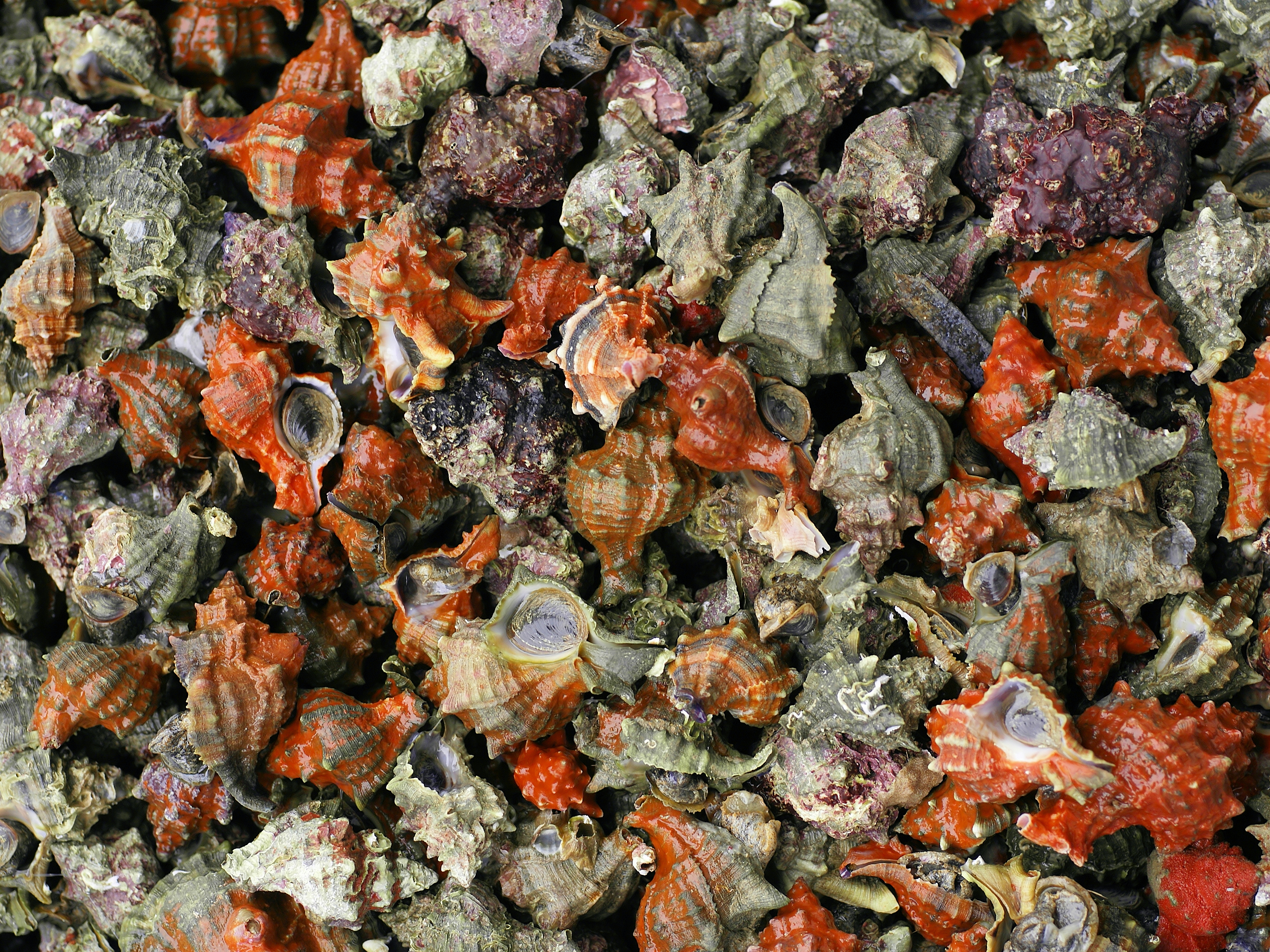 Banded dye-murex at the fish market in l'Ametlla de Mar (Catalonia), Spain